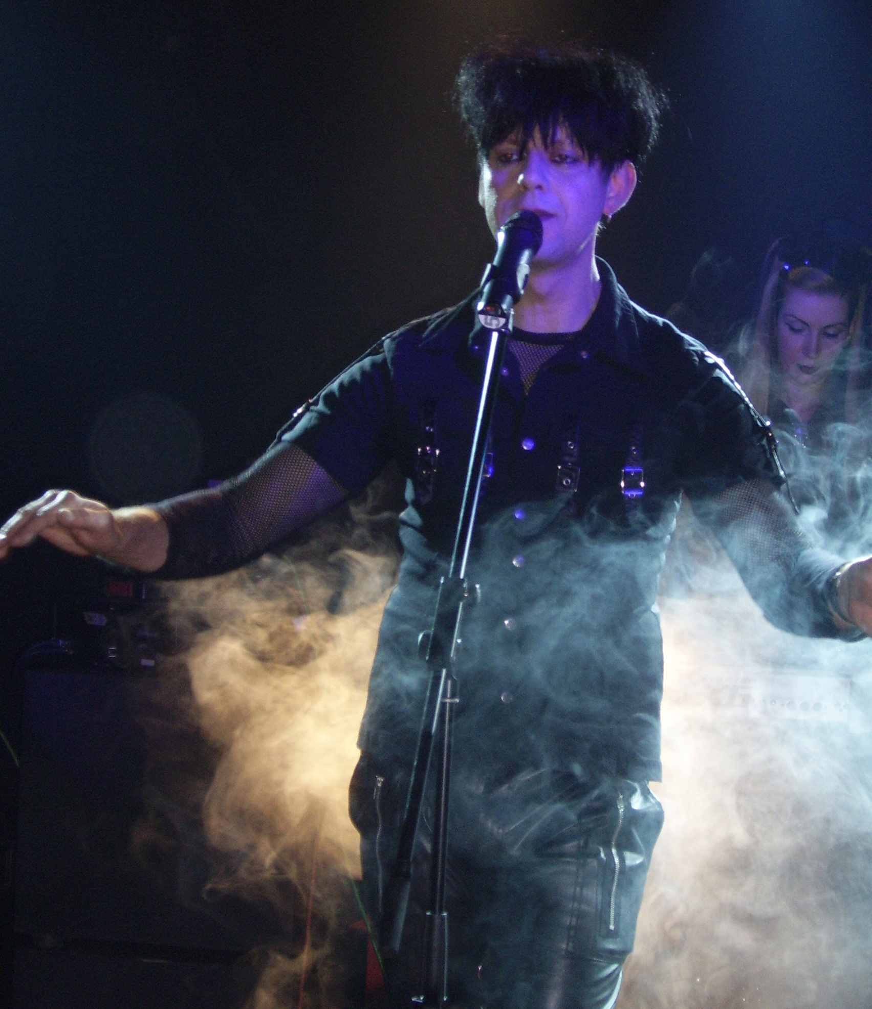 Ronny Moorings of Clan of Xymox live in Sofia.